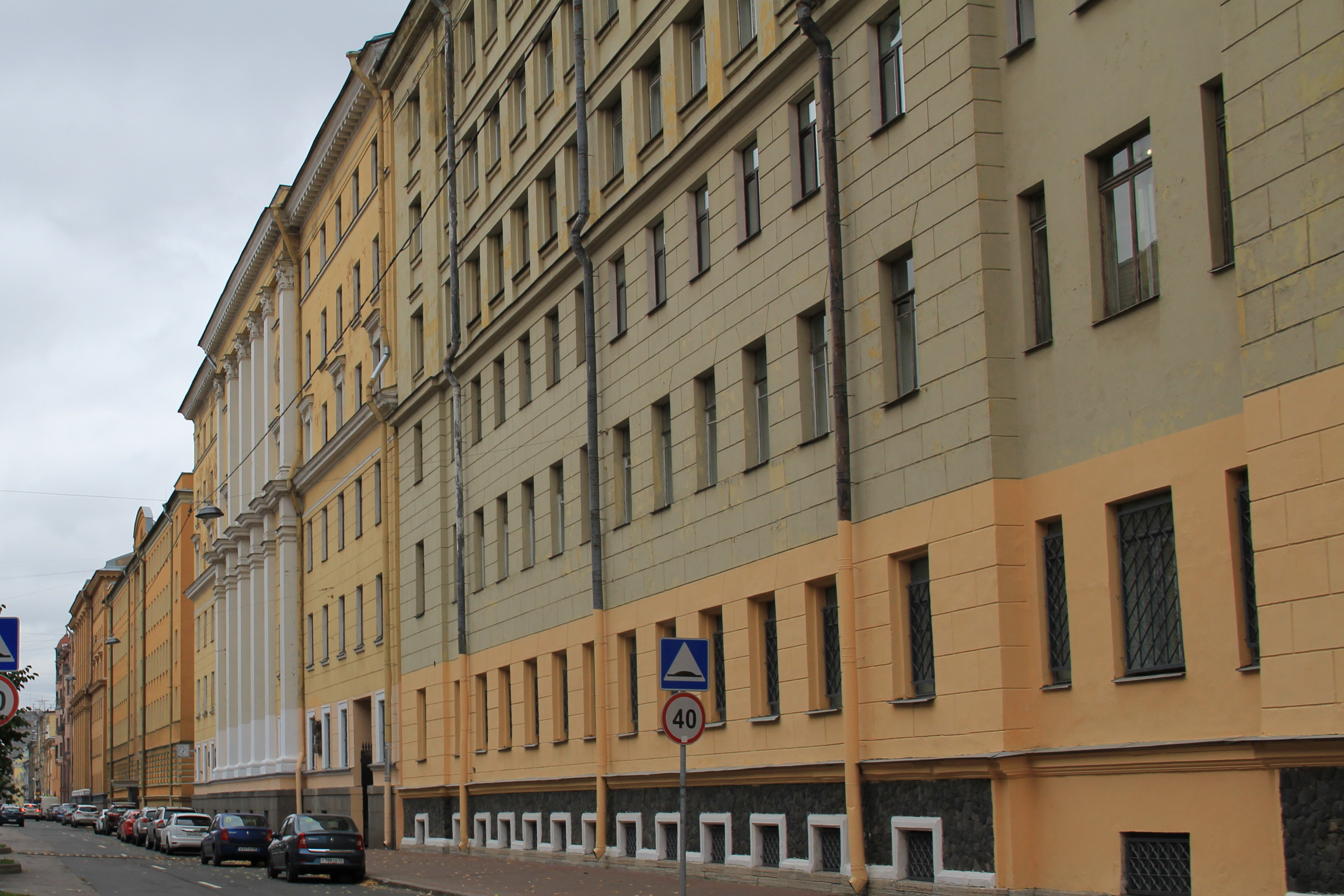 22 Zaharevskaja, St. Petersburg, Russia